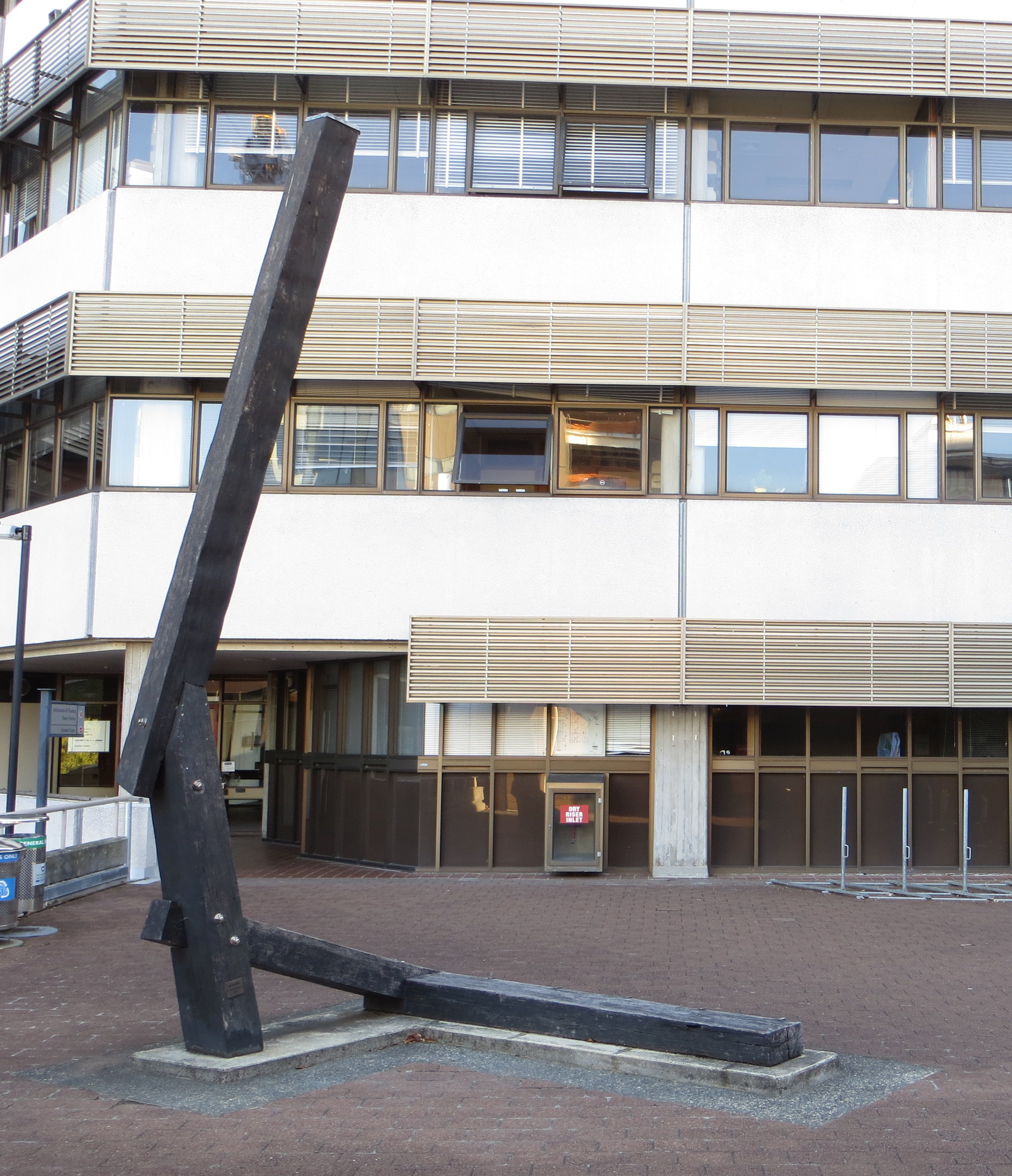 The sculpture Measure (recycled Australian hardwood, 1981) by Peter Nicholls at the School of Architecture and Planning, University of Auckland, New Zealand